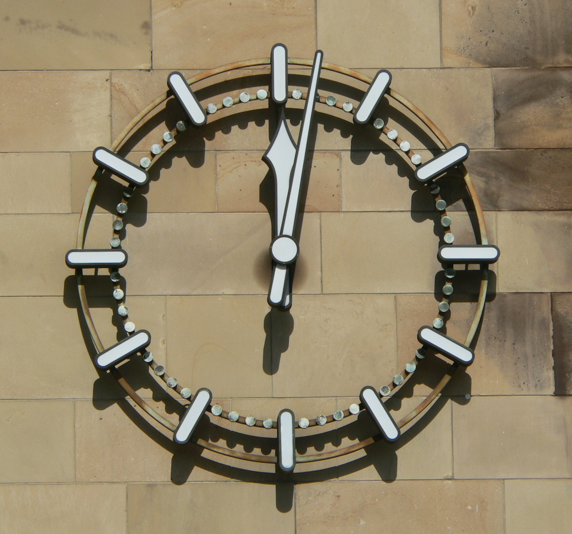 Station clock in Heilbronn, Germany